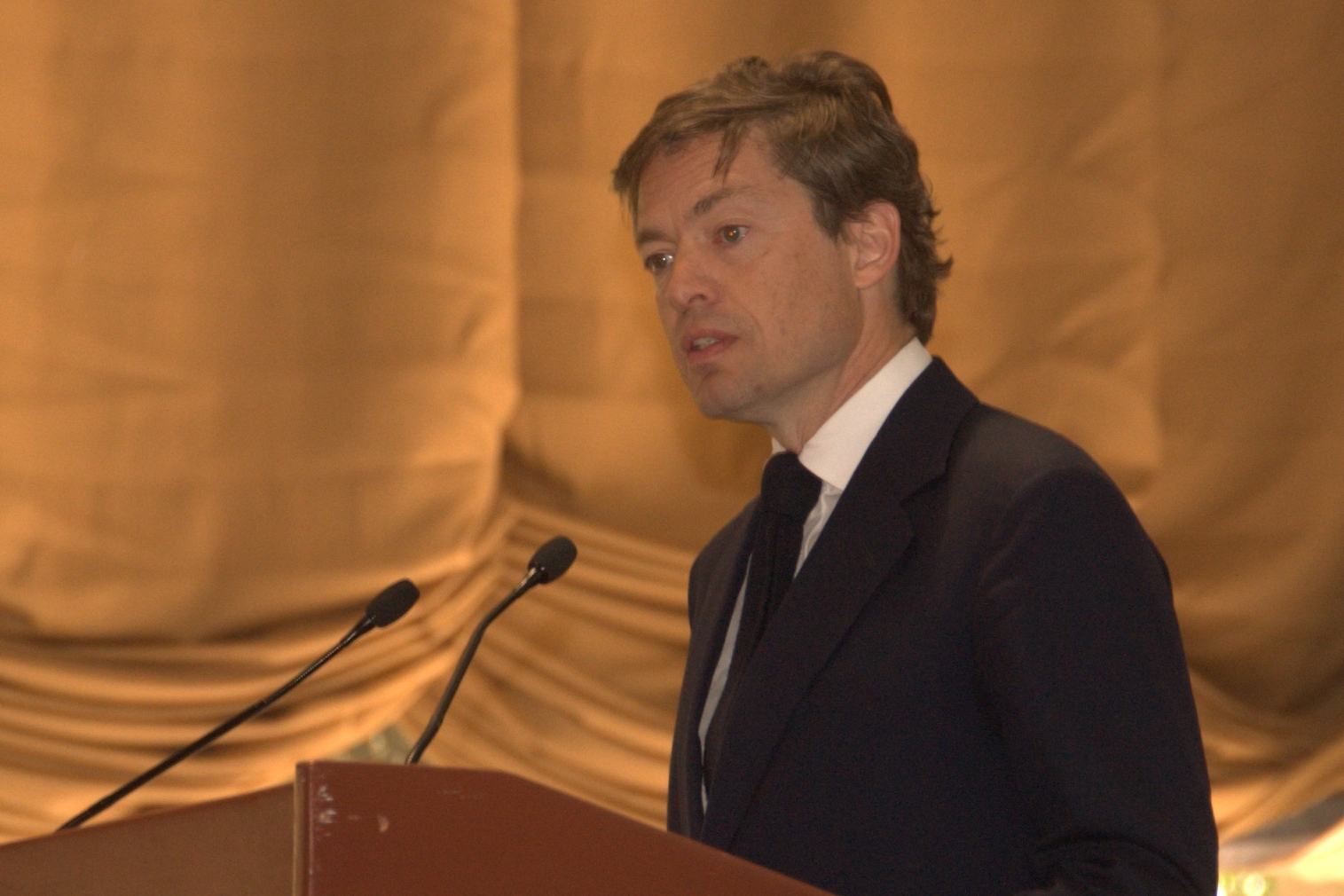 Nicolas Berggruen speaking at the Global Governance event at ITESM- Campus Ciudad de México